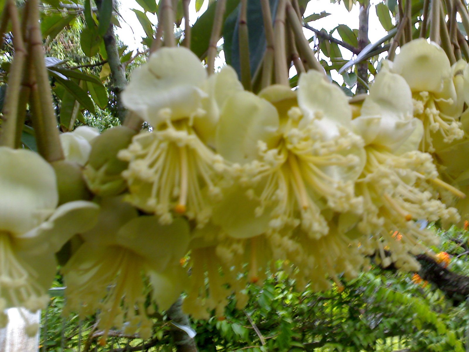 Mei's durian flowers - [/photos/avlxyz/1039434050/ durian] - [/photos/avlxyz/1038579655/ durian flowers] - [/photos/avlxyz/1039429498/ durian flower buds] - [/photos/avlxyz/1039434050/ durian] - [/photos/avlxyz/1038579655/ durian flowers] - [/photos/avlxyz/1039429498/ durian flower buds] - Everybody loves durian! :) - mountains of durian